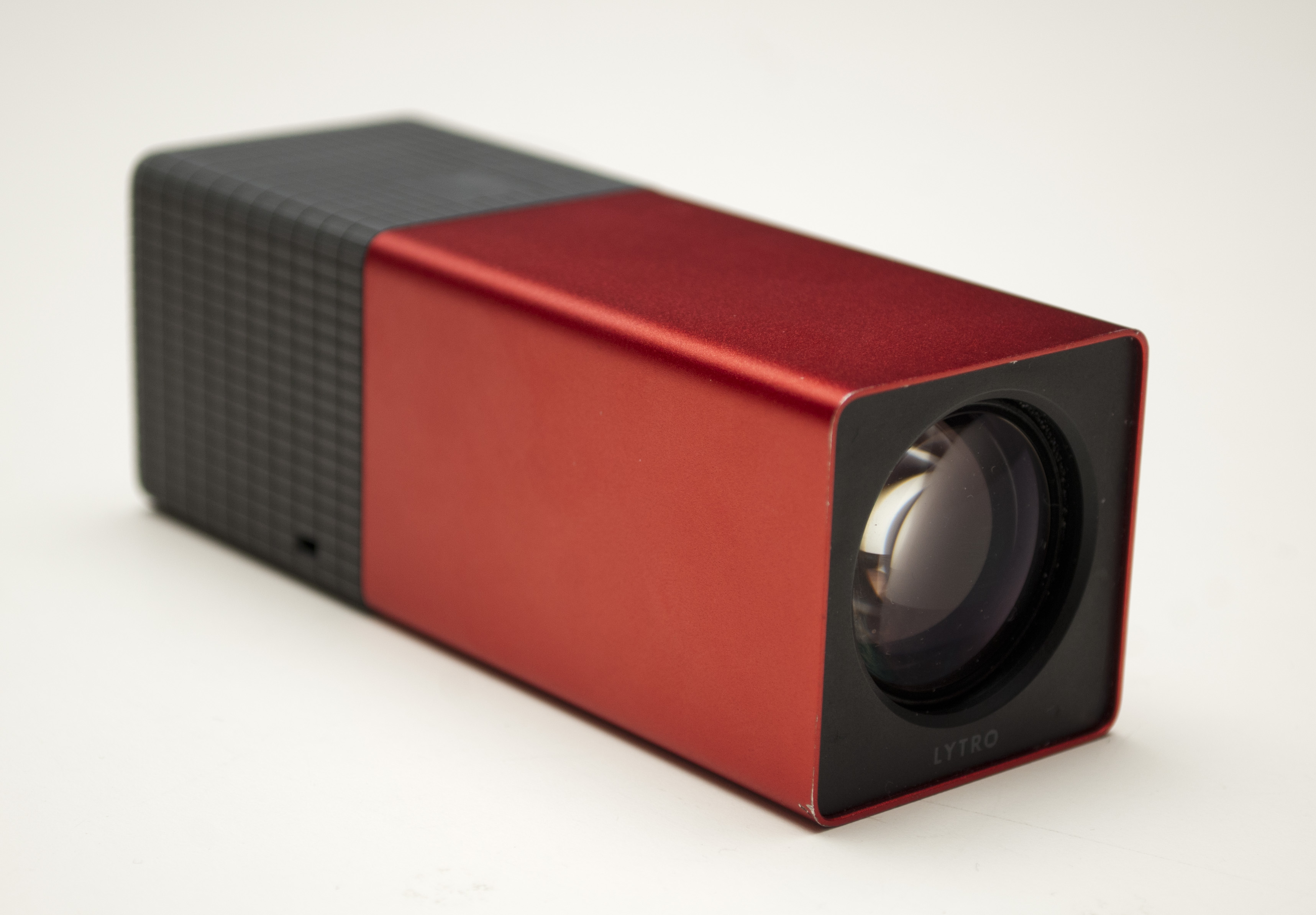 Front of a Lytro light field camera, showing front lens. Taken after a presentation by CEO Ren Ng at HP Auditorium, Soda Hall, University of California, Berkeley. The unit was fully functional; at this time the cameras were on preorder but not quite yet shipping.